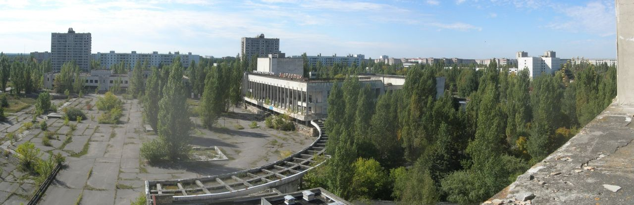 Pripyat panorama